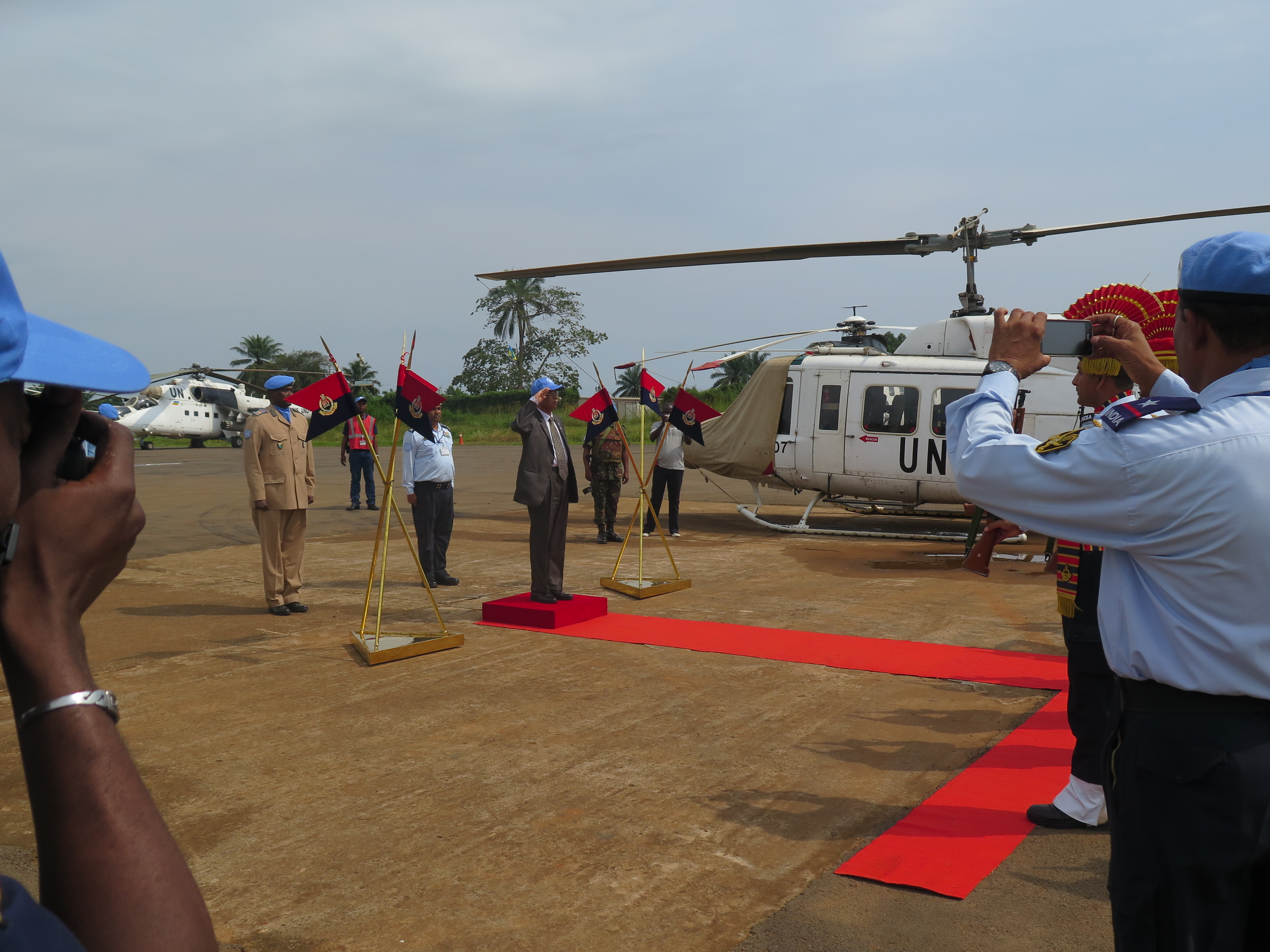 Guard of honour mounted for Under Secretary Khare by Indian contingent in Rwindi. Photo/MONUSCO Alain Coulibaly